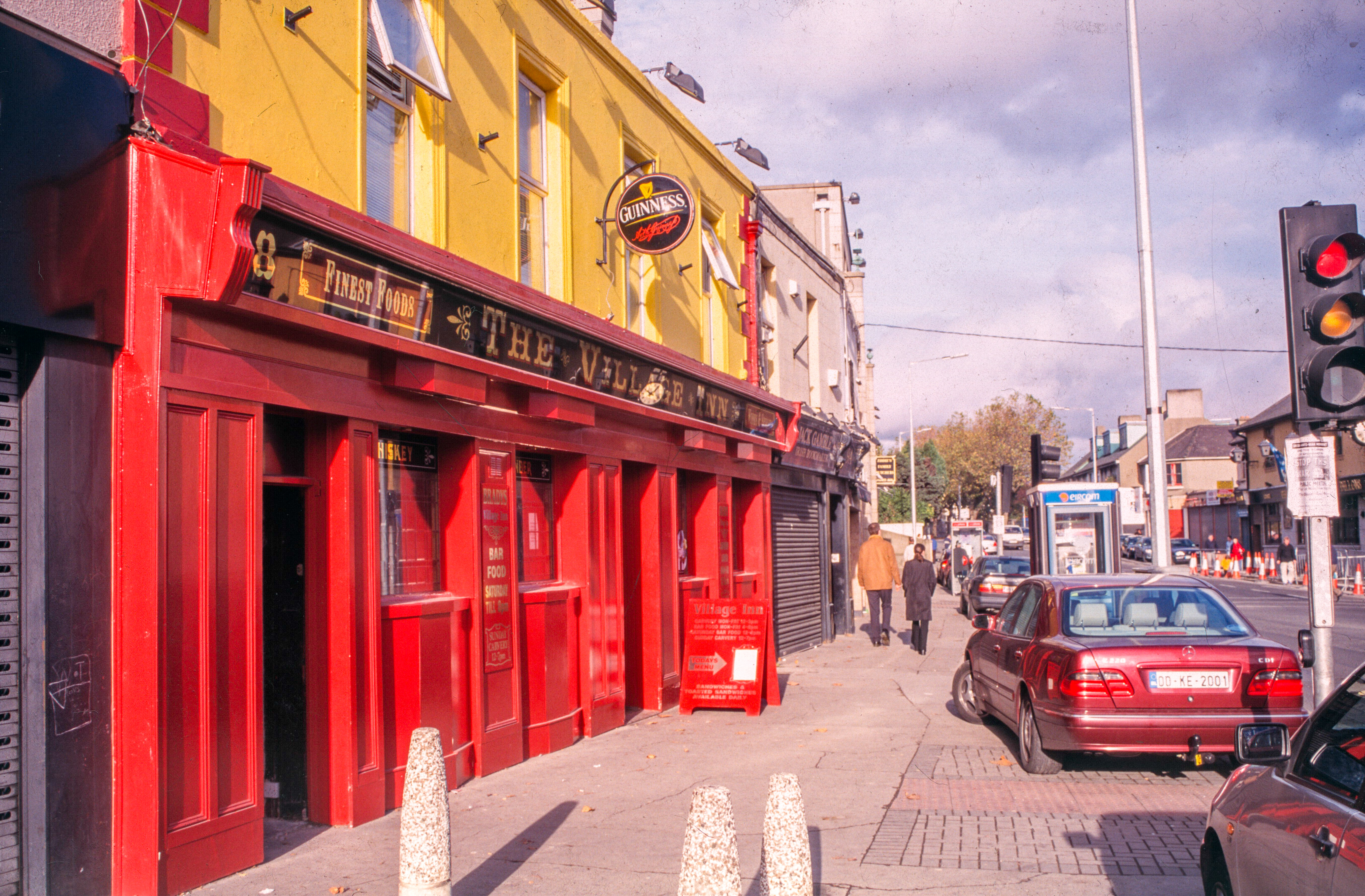 The Village Inn, Inchicore, Dublin